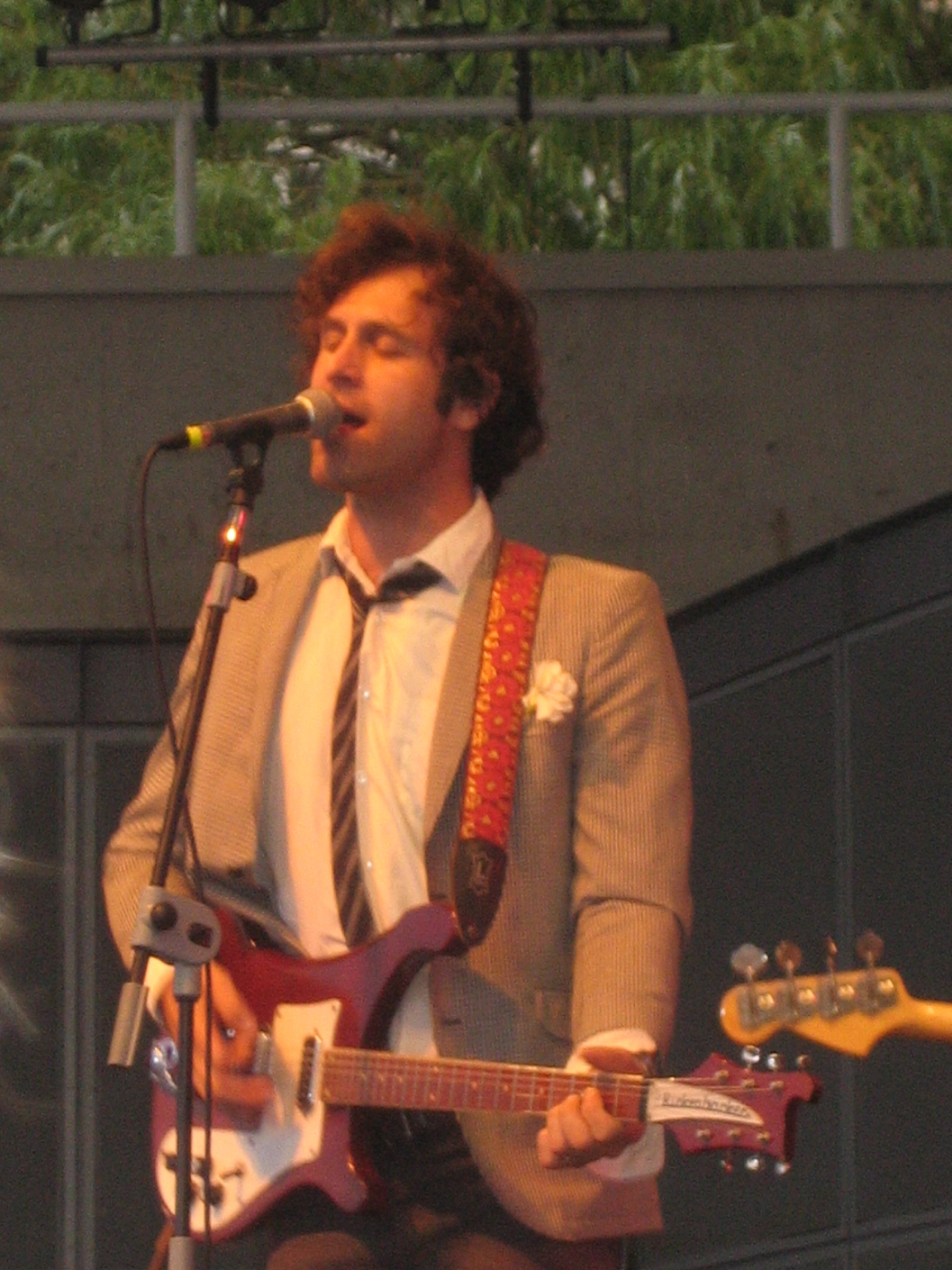 Picture of Canadian rock musician Jason Collett performing a free concert at the Harbourfront Centre in Toronto, Canada on Canada Day.